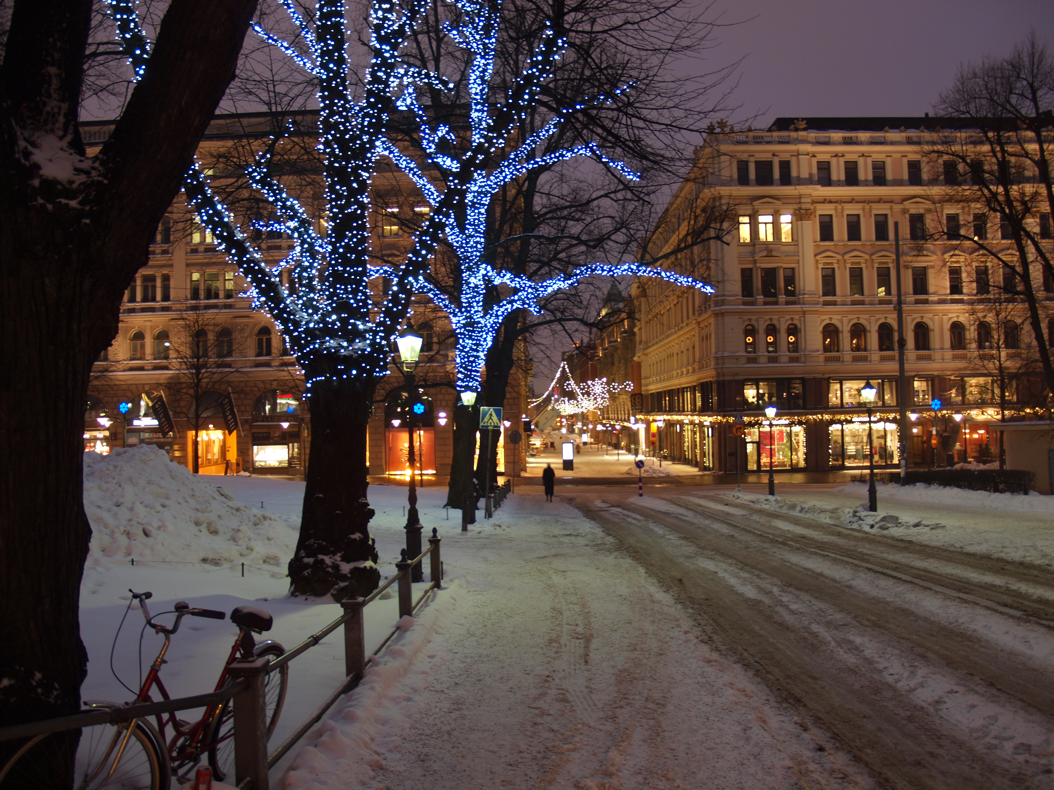 The Esplanadi park in Helsinki, Finland, at about 08:39 in the morning on the Finnish Independence Day, 6 December 2012.